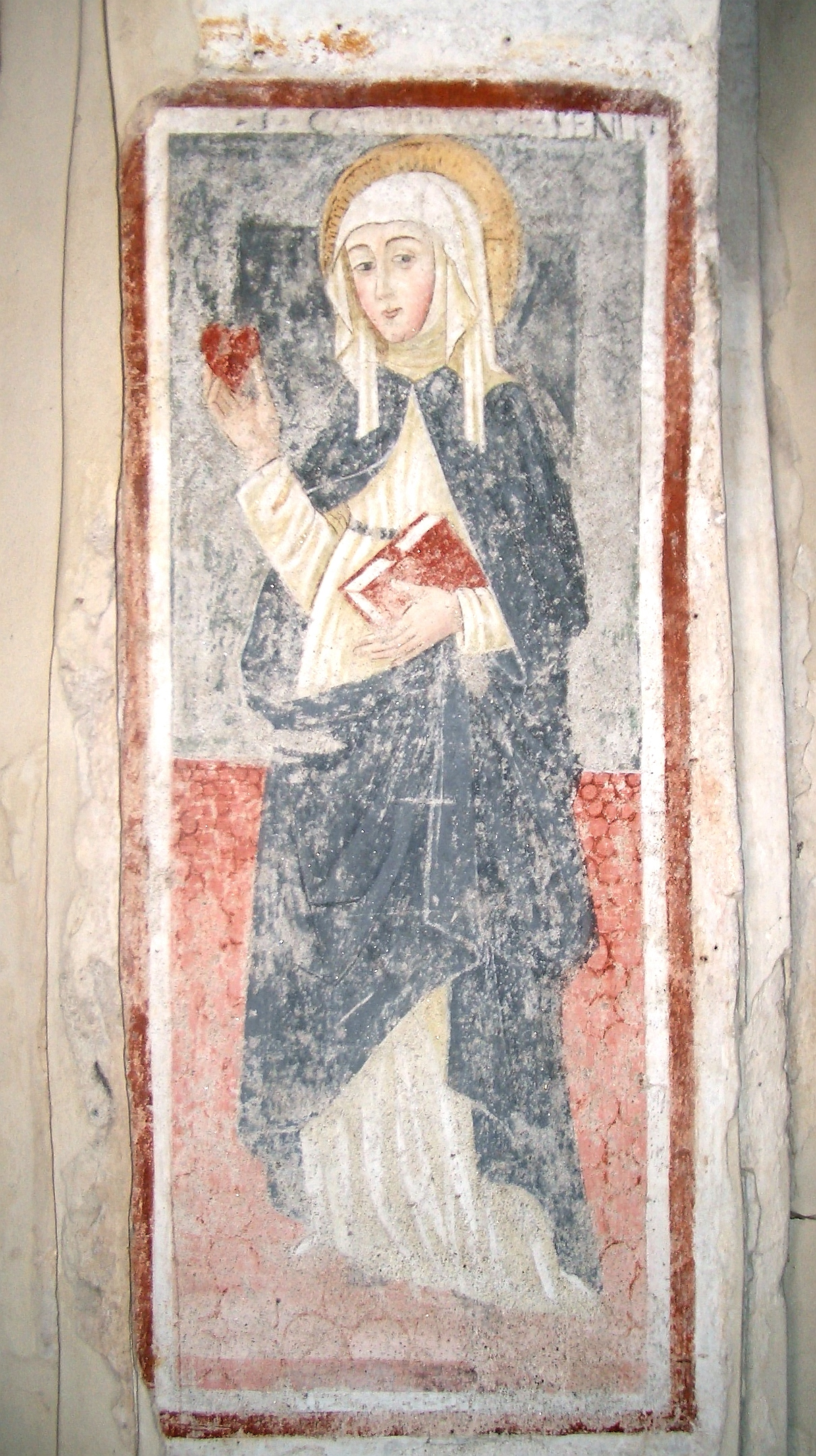 Painter of the XV century, Santa Caterina da Siena, Ancient church of St Peter, Carpignano Sesia, Novara, Italy